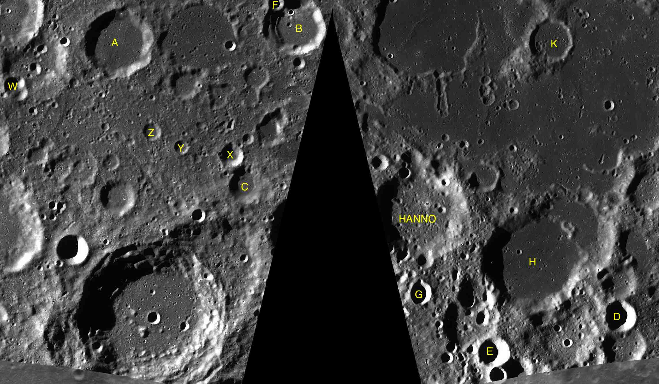 Parts of the charts LAC-128, LAC-129 used for the presentation